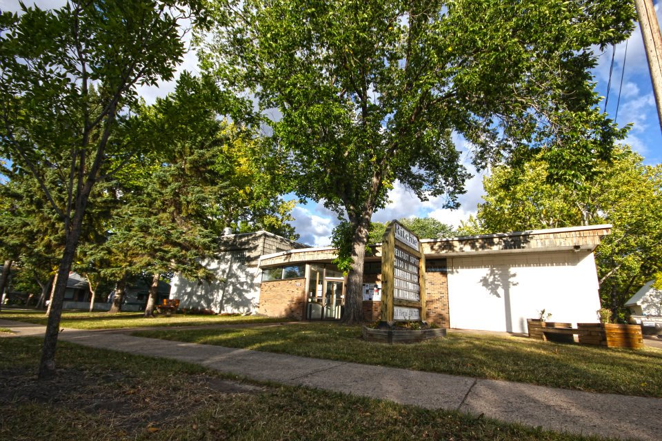 West view of Ritchie Community League Hall, September 2011